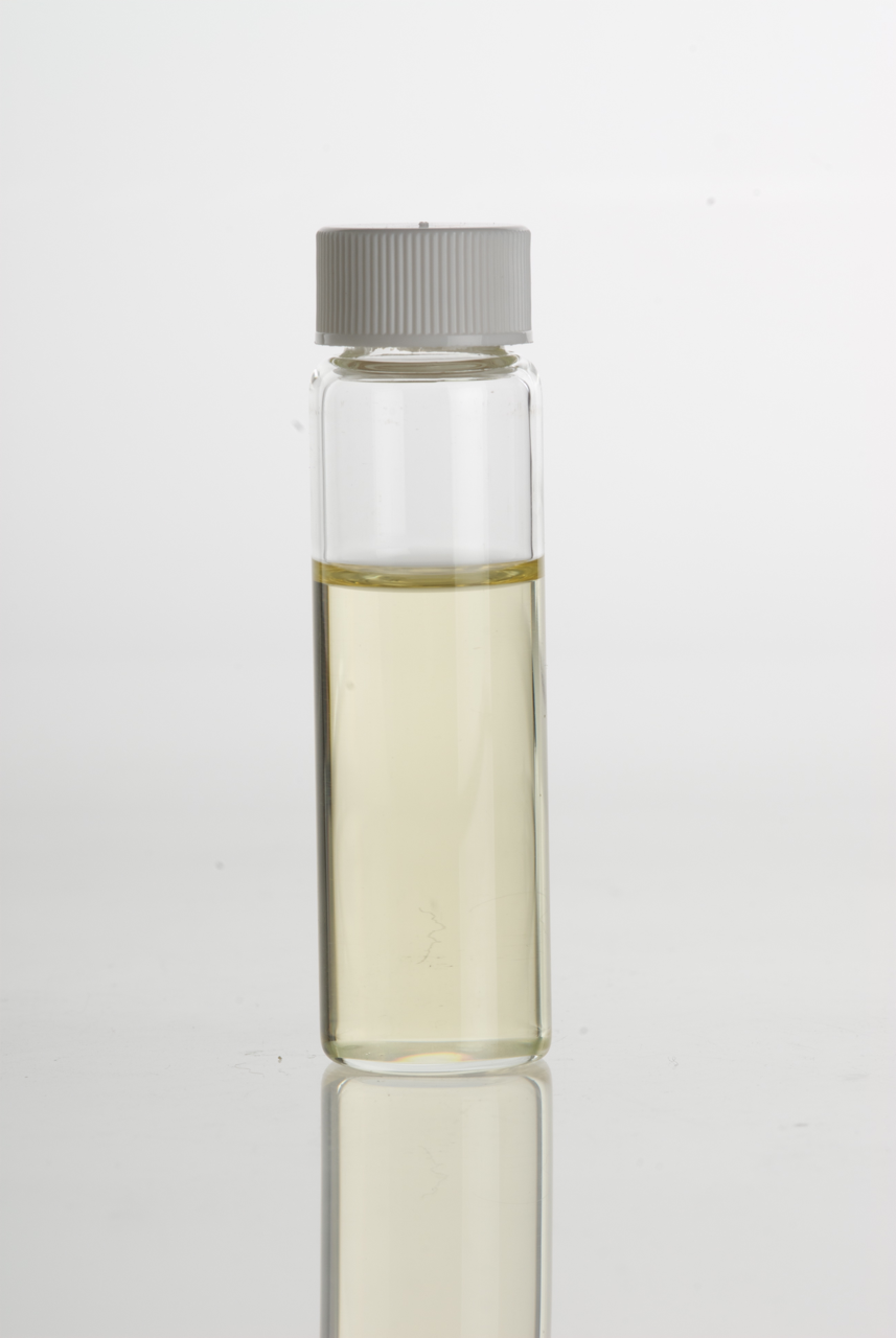 Petitgrain (Citrus sinensis) Essential Oil in clear glass vial